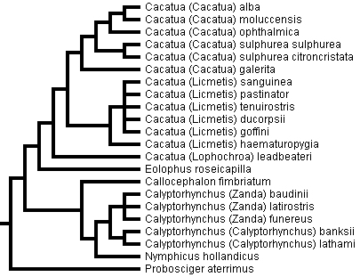 Summary Cockatoo phylogeny based on existing publications